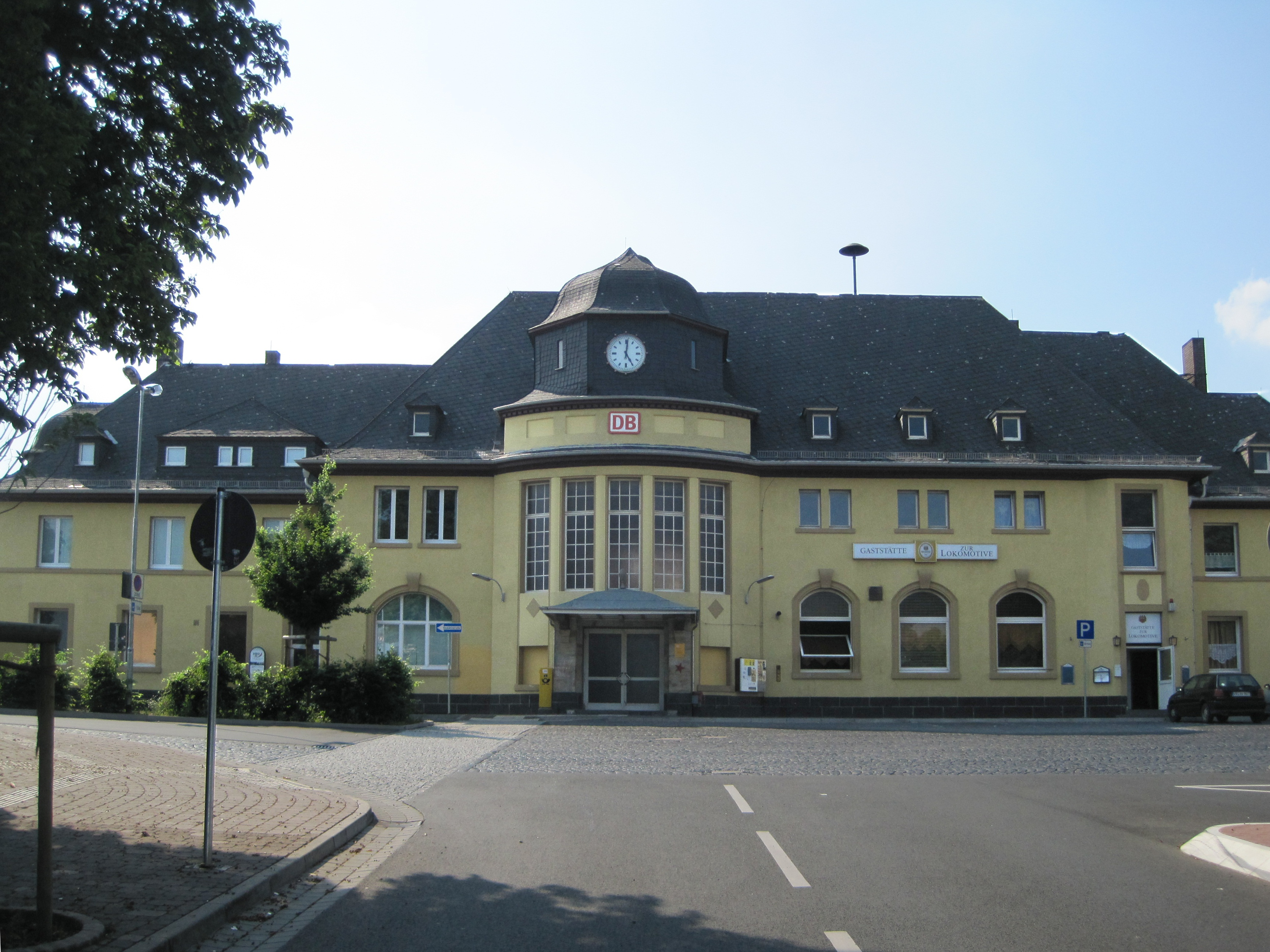 Alsfeld (Oberhess) station, Alsfeld, Germany check usage